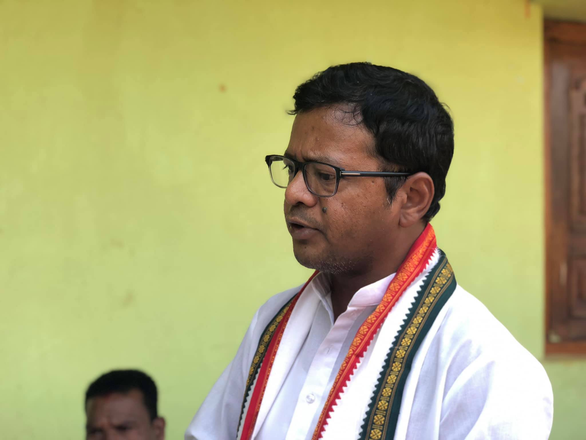 Shri.Saptagiri Sankar Ulaka during his electoral campaign in Koraput.